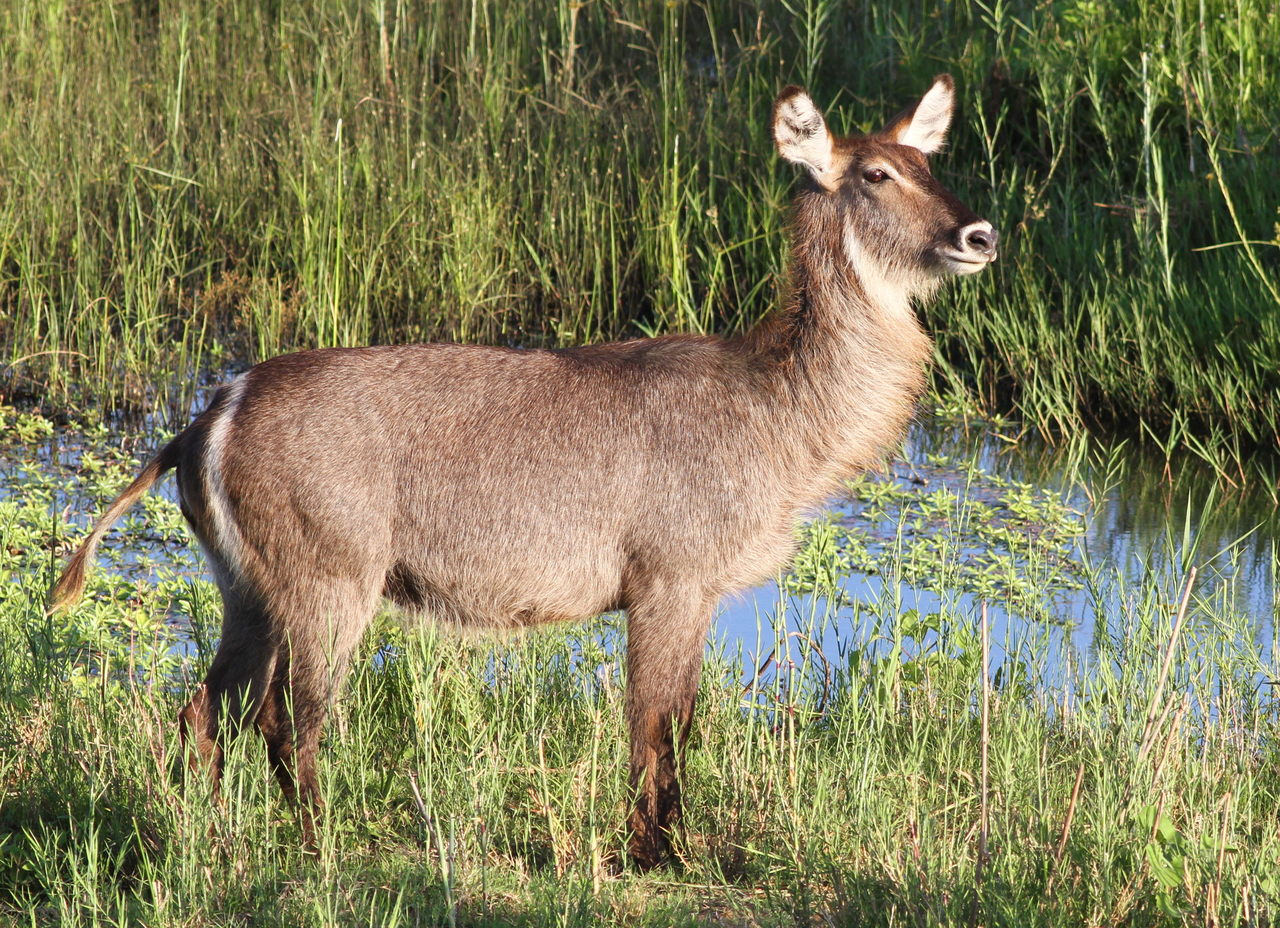 Female Waterbuck at Letaba River.